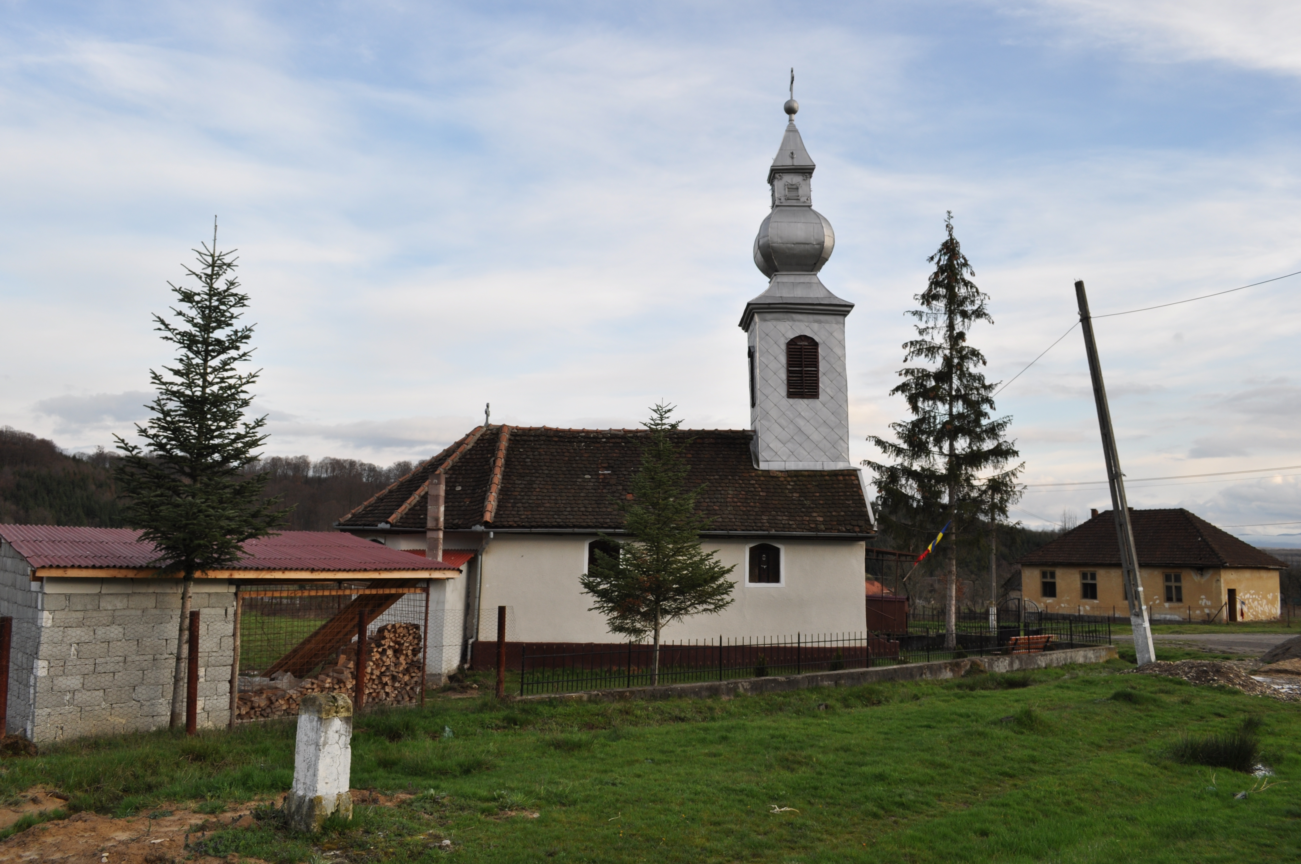 Minead, Arad county, Romania